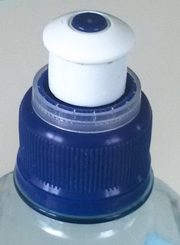 A "sports" cap for bottles in closed configuration. Part of a 0.7l Imsdal water bottle.